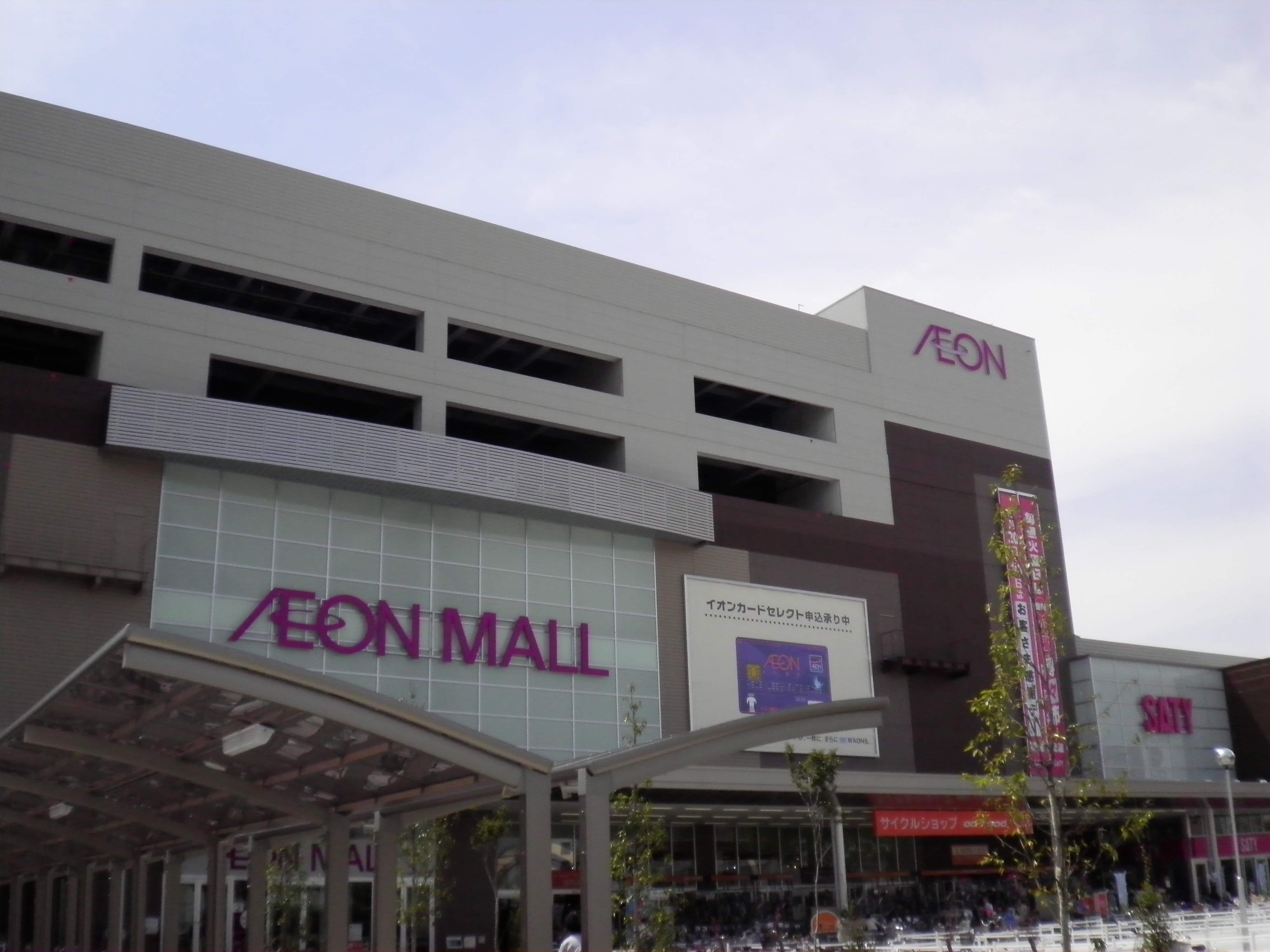 aeon_mall_aratamabashi